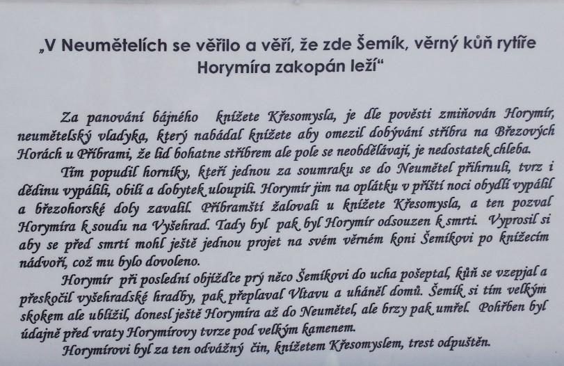 Part of a Horymír and Šemík legend, exposed in the builetin board next to the Šemík monument in Neumětely, Czech Republic